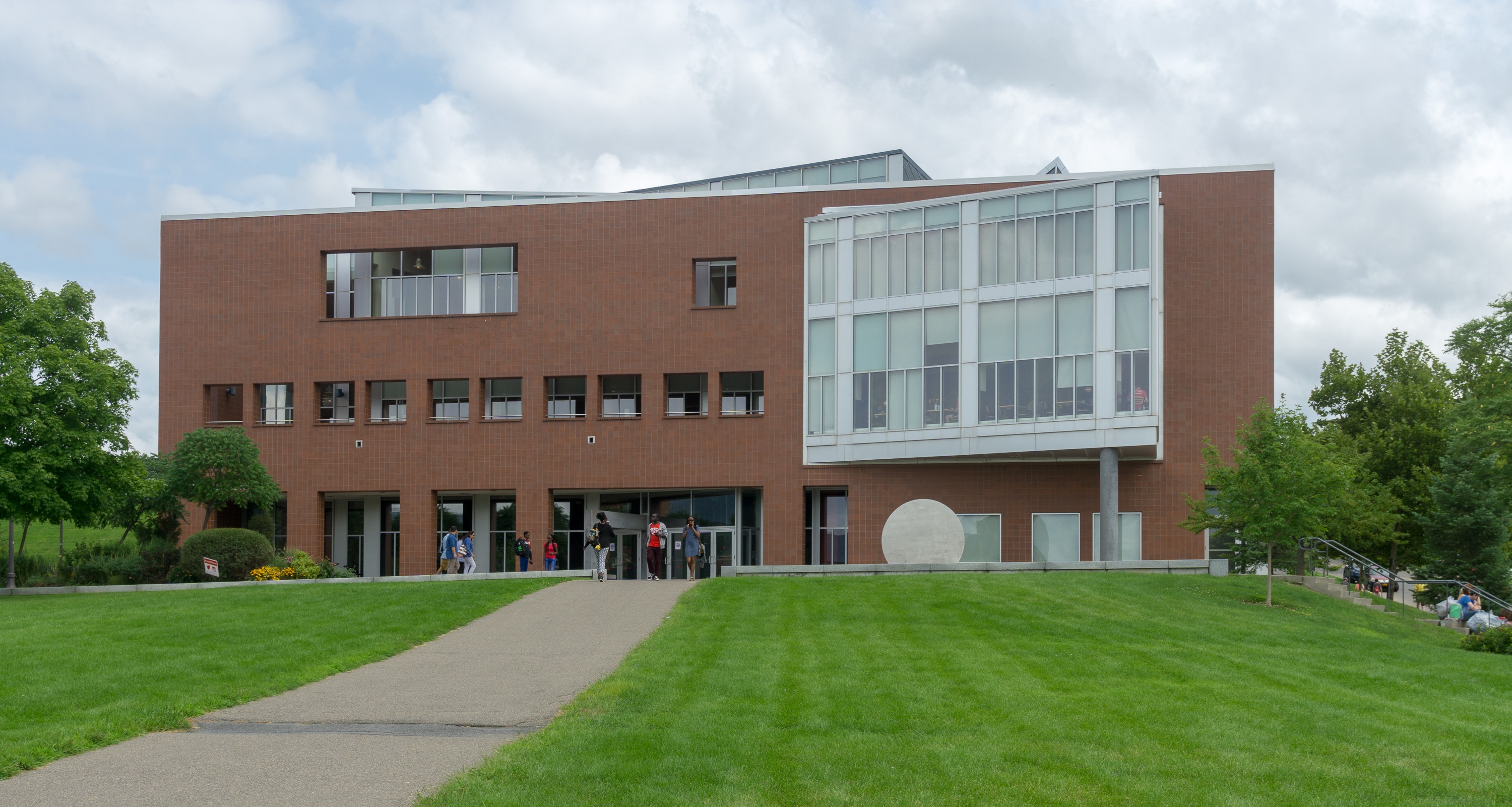 Robert J & Helen Appel Commons, 186 Cradit Farm Drive. Cornell University. Built in 2000.